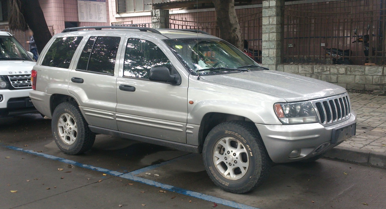 Jeep Grand Cherokee WJ photographed in Chengdu, Sichuan province, China.